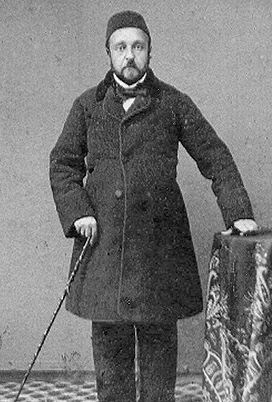 Mehmed Kamil Bey (later Pasha)